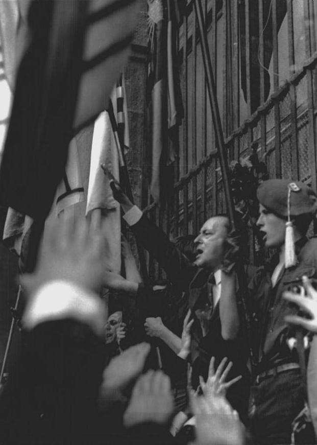 Blas Piñar leader of far right party Fuerza Nueva salutes during a far-right rally in Madrid in 1976. At his left is Carlos García Juliá one of the assassins who later carried out the 1977 Atocha massacre where five people were killed and four injured. The caption originally attached to the photo reads: After the five symbolic roses were deposited in the place where Don Juan Antonio Fernandez Gutierrez was murdered by the police, Cara el Sol was sung by all those attending the event Después de ser depositadas las cinco rosas simbolicas en el lugar donde fue asesins do el policia don Juan Antonio Fernandez Gutierrez fue entonado el Cara el Sol por todos los asistentes al acto